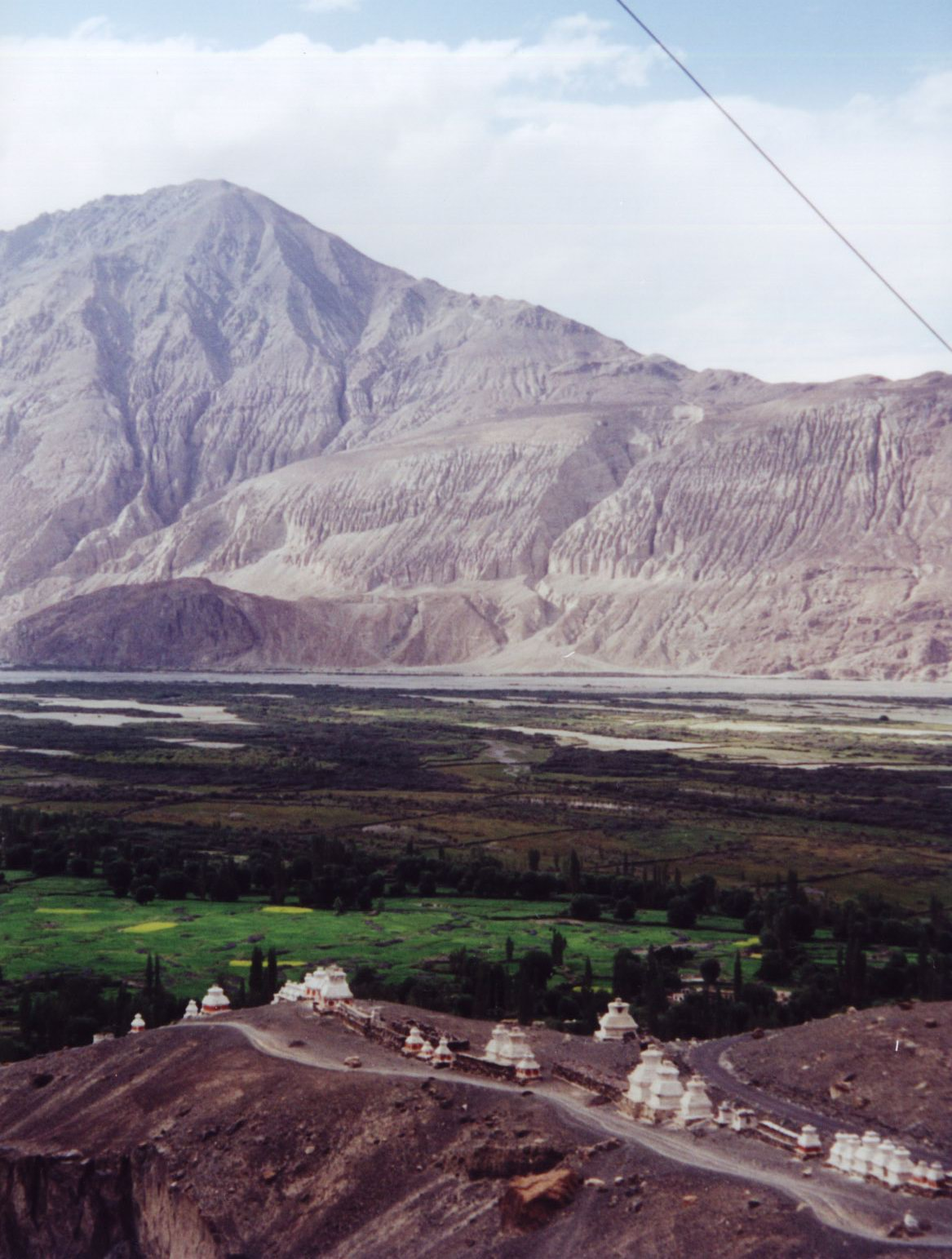 View from Diskit Gompa (monastery) to Diskit village and Nubra Valley, Ladakh, India